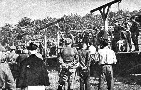 Execution of concentration camp guards at Biskupia Gorka: Becker, Klaff, Steinhoff, Pauls (right to left) before execution